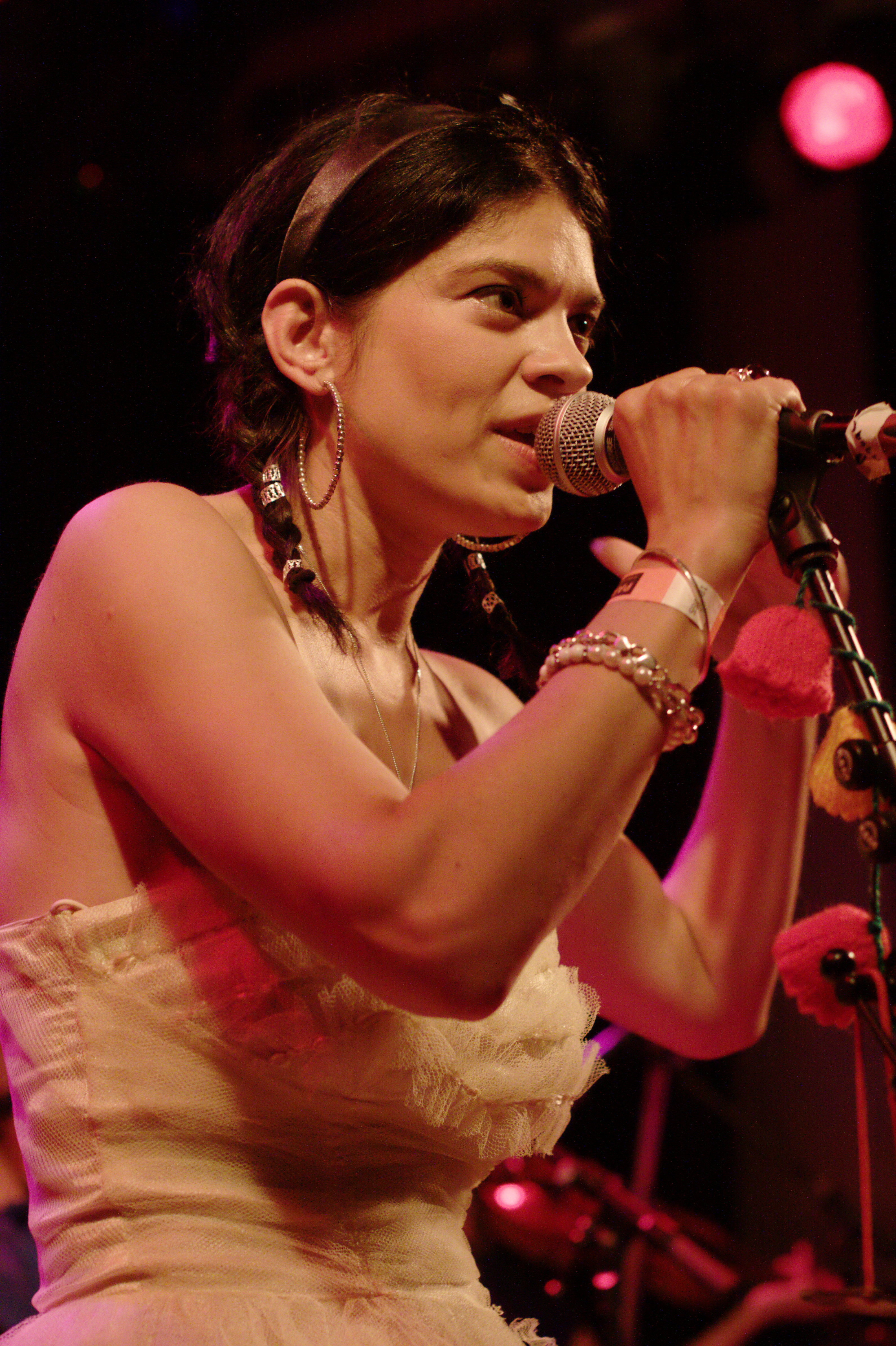 Raissa Khan-Panni and The Mummers playing in Paradiso, Amsterdam on 2009-08-29.